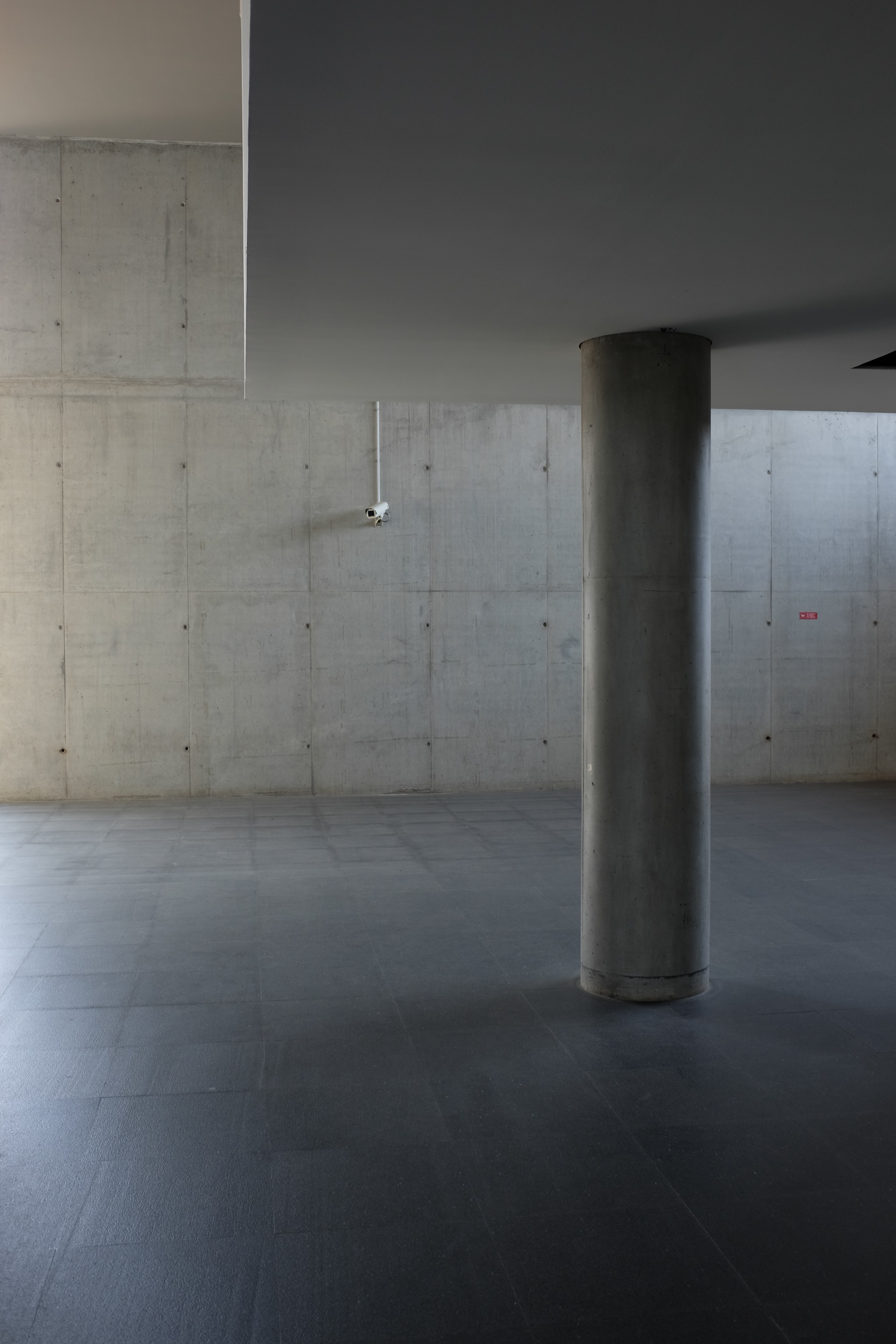 Lisbonne, Portugal